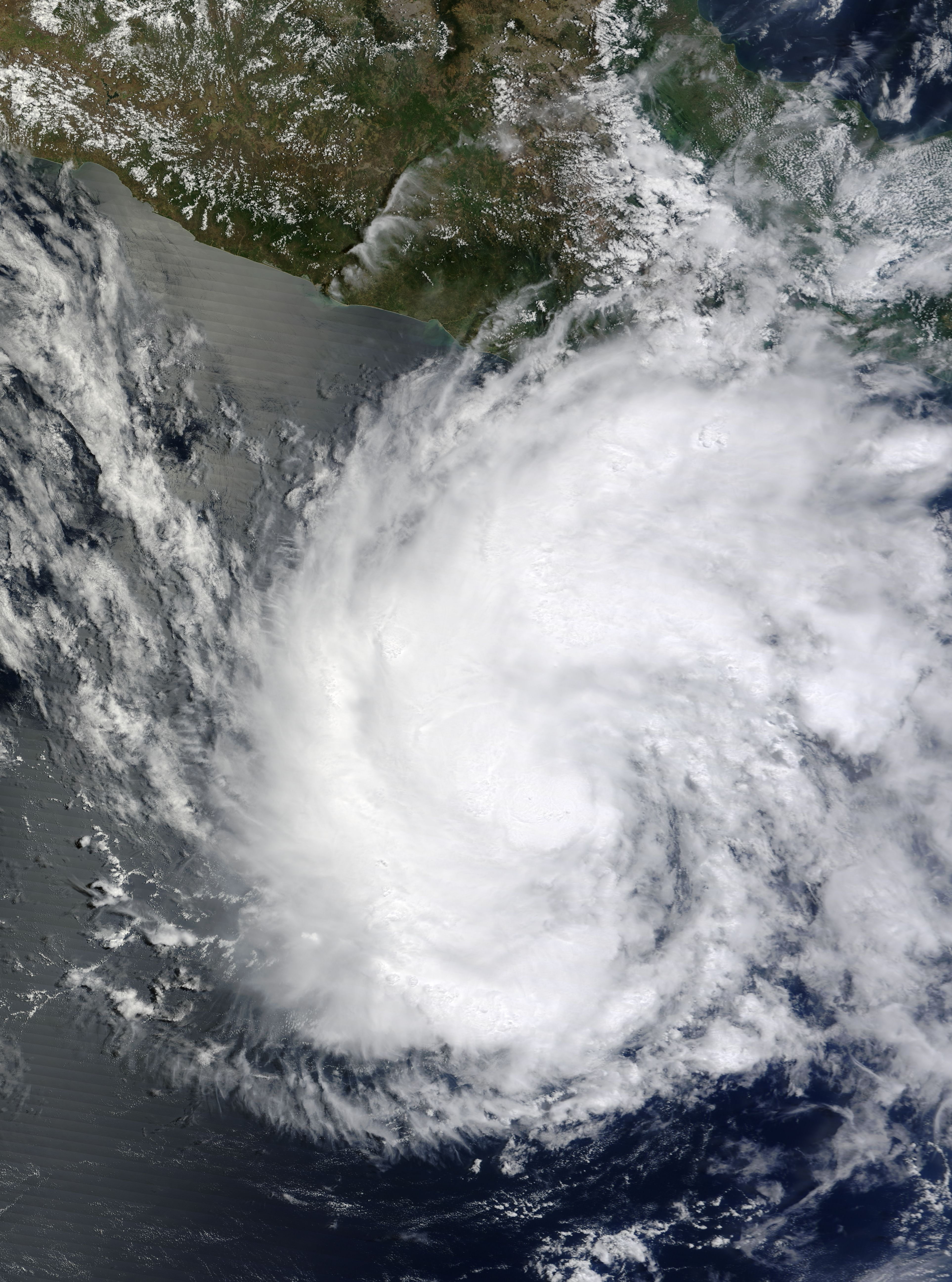 Tropical storm Celia in the Eastern Pacific Ocean on June 19, 2010.